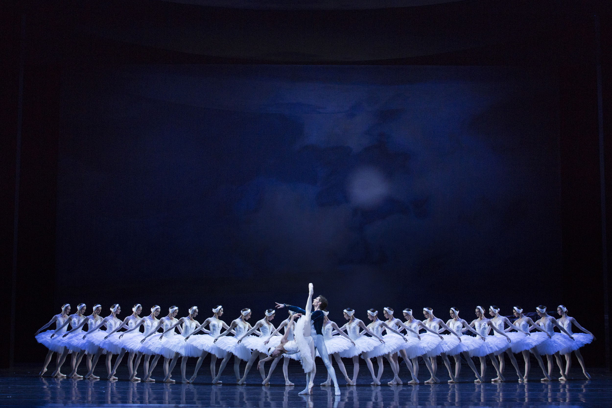 "Swan Lake" in Krzysztof Pastor's choreography, Polish National Ballet, dancers: Chinara Alizade & Vladimir Yaroshenko, set and costume design by Luisa Spinatelli